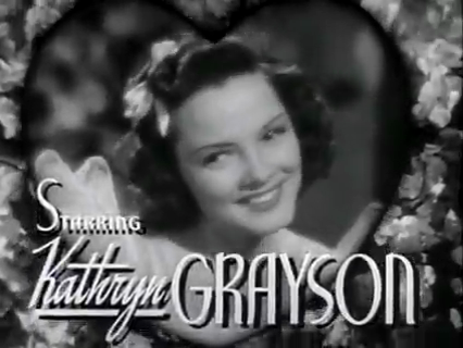 Kathryn Grayson Seven Sweethearts 1942 Frank Borzage